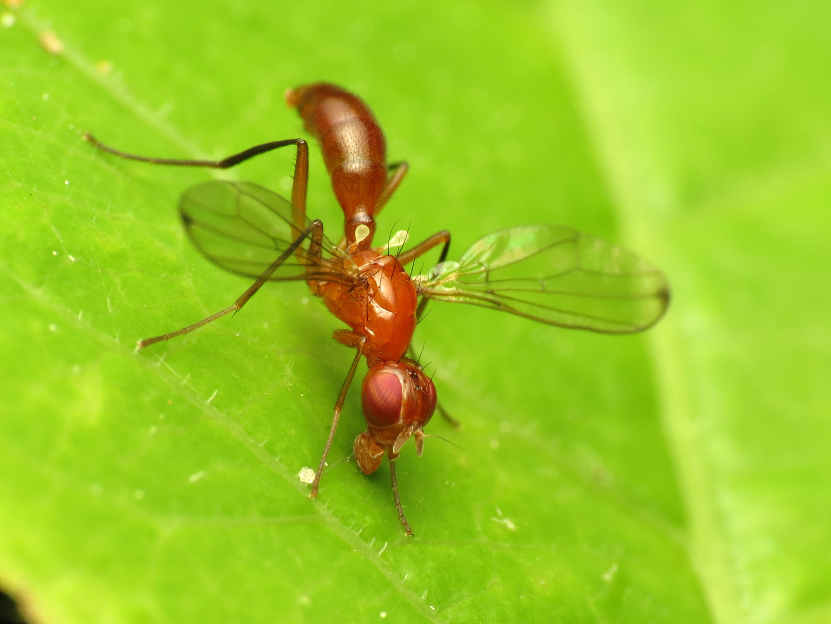 Sepsisoma flavescens. Rock Creek Park, Washington, DC, USA.